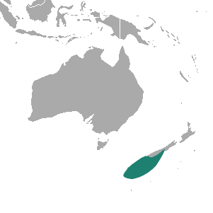 New Zealand Sea Lion (Phocarctos hookeri) range